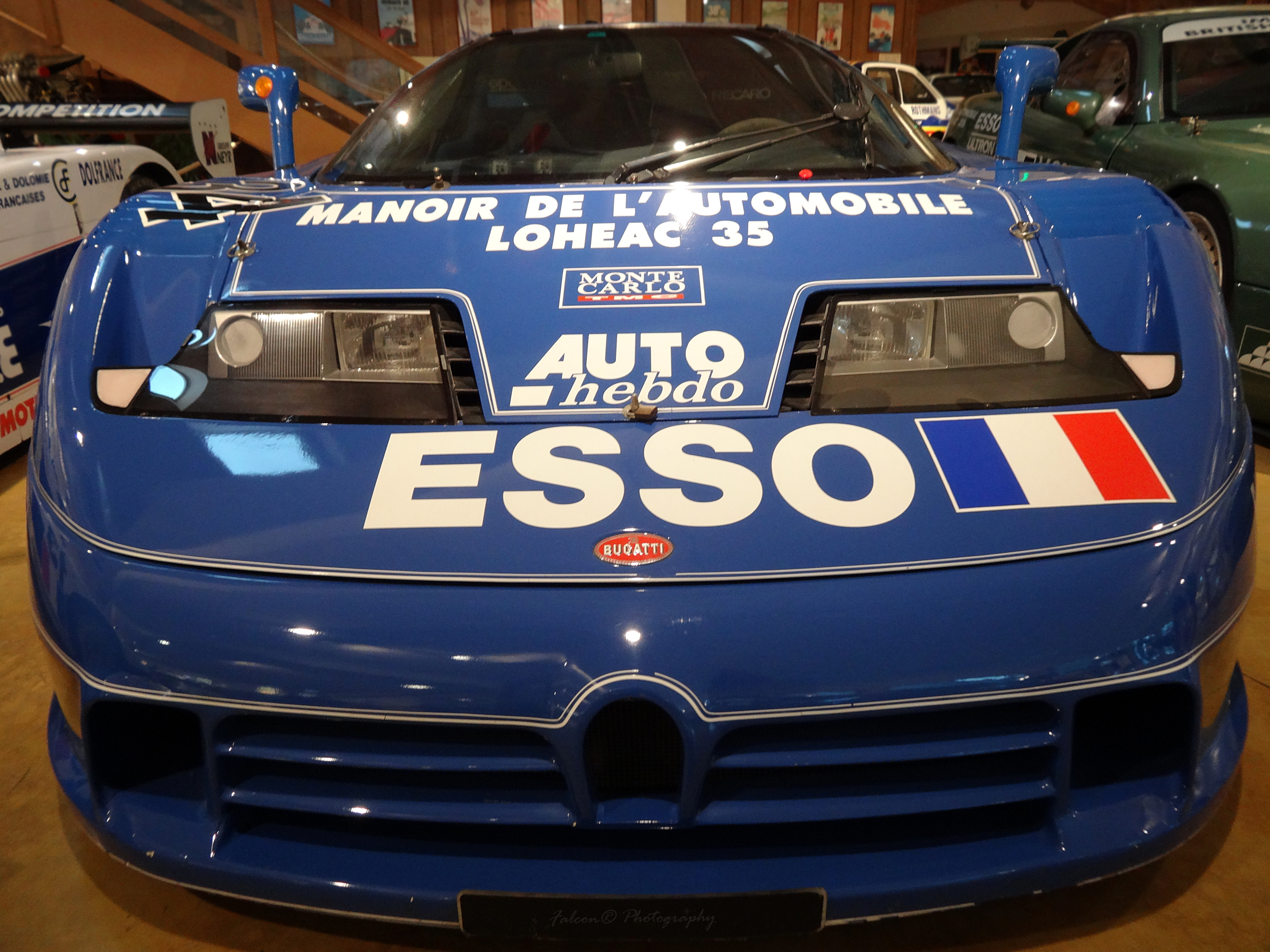 Le Mans 600cv 1300kg Drivers: Alain Cudini, Eric Helary and Jean-Christophe "Jules" Bouillon. "One hour before the race, the local Synergic team, which was running the car for publishing magnate Michel Hommell, discovered a fuel leak. The only solution available to mend the car in time for the race was a tube of Araldite."